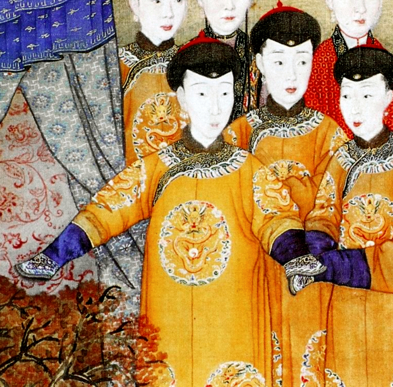 Empress Xiaoyichun